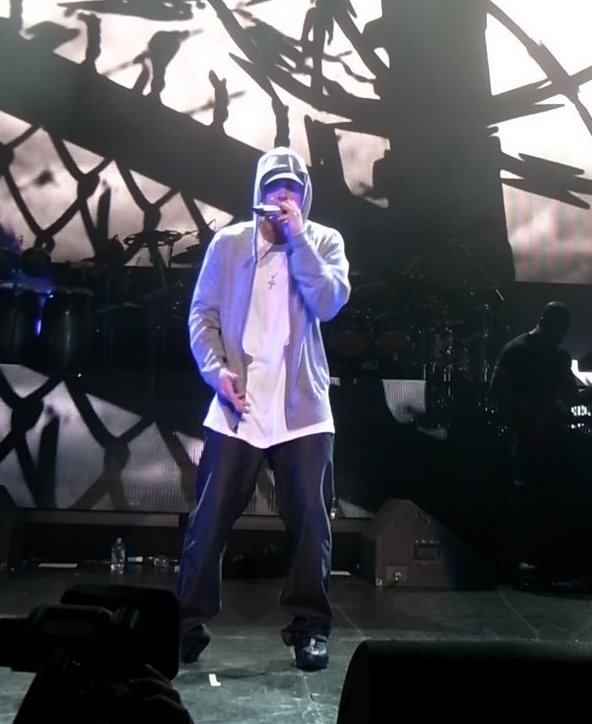 Eminem performing at the DJ hero party on June 1, 2009